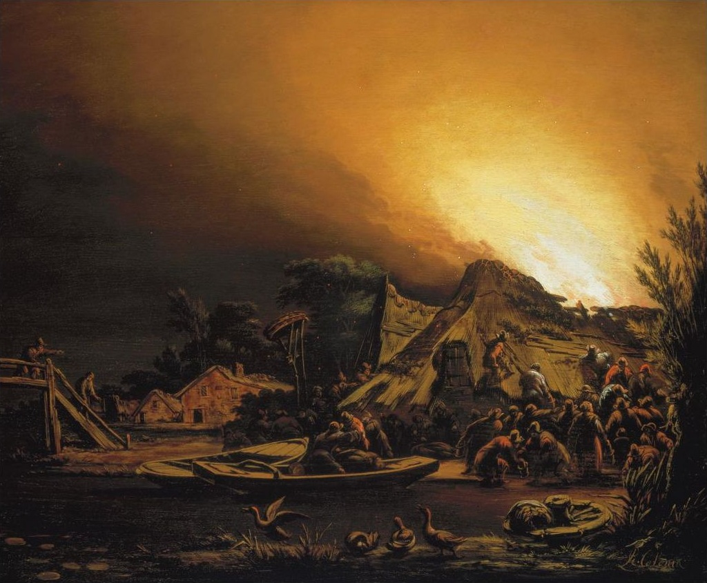 'Village fire by night', panel, 31.7 x 39.2 cm, signed lower right corner. From the 1650s, night-time village fires were a popular theme with painters in Rotterdam. The naturalistic rendering of the light effects produced by fire and the moon on the surrounding darkness was the greatest challenge for an artist. Particularly important in this development was the work of Egbert van der Poel (1621-1664), who had moved to the city in 1654. He had several faithful followers in Rotterdam, among the best of which was Adam Colonia.